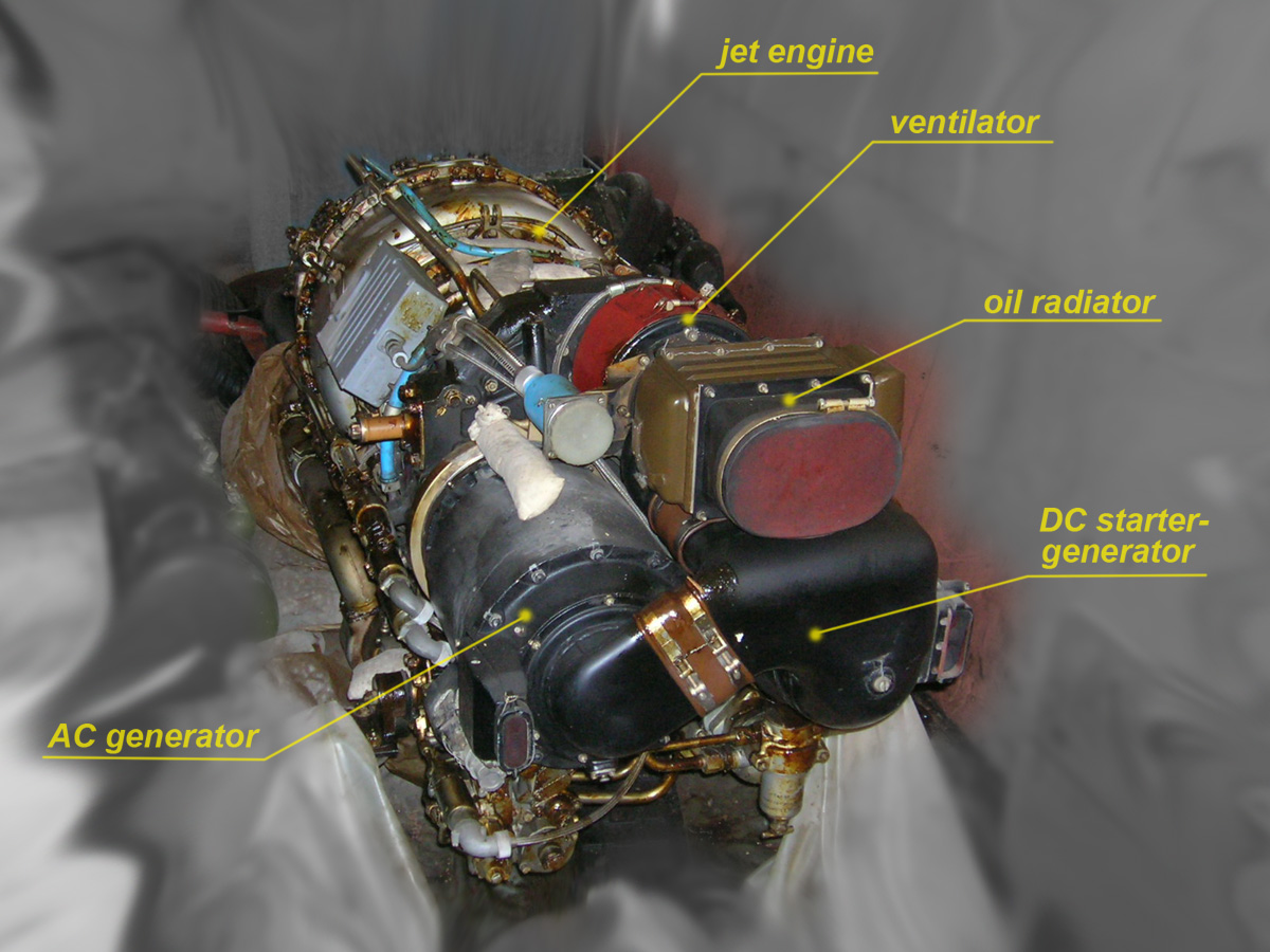 Aux power unit TA-6 series for Tu-154, Yak-42 aircrafts